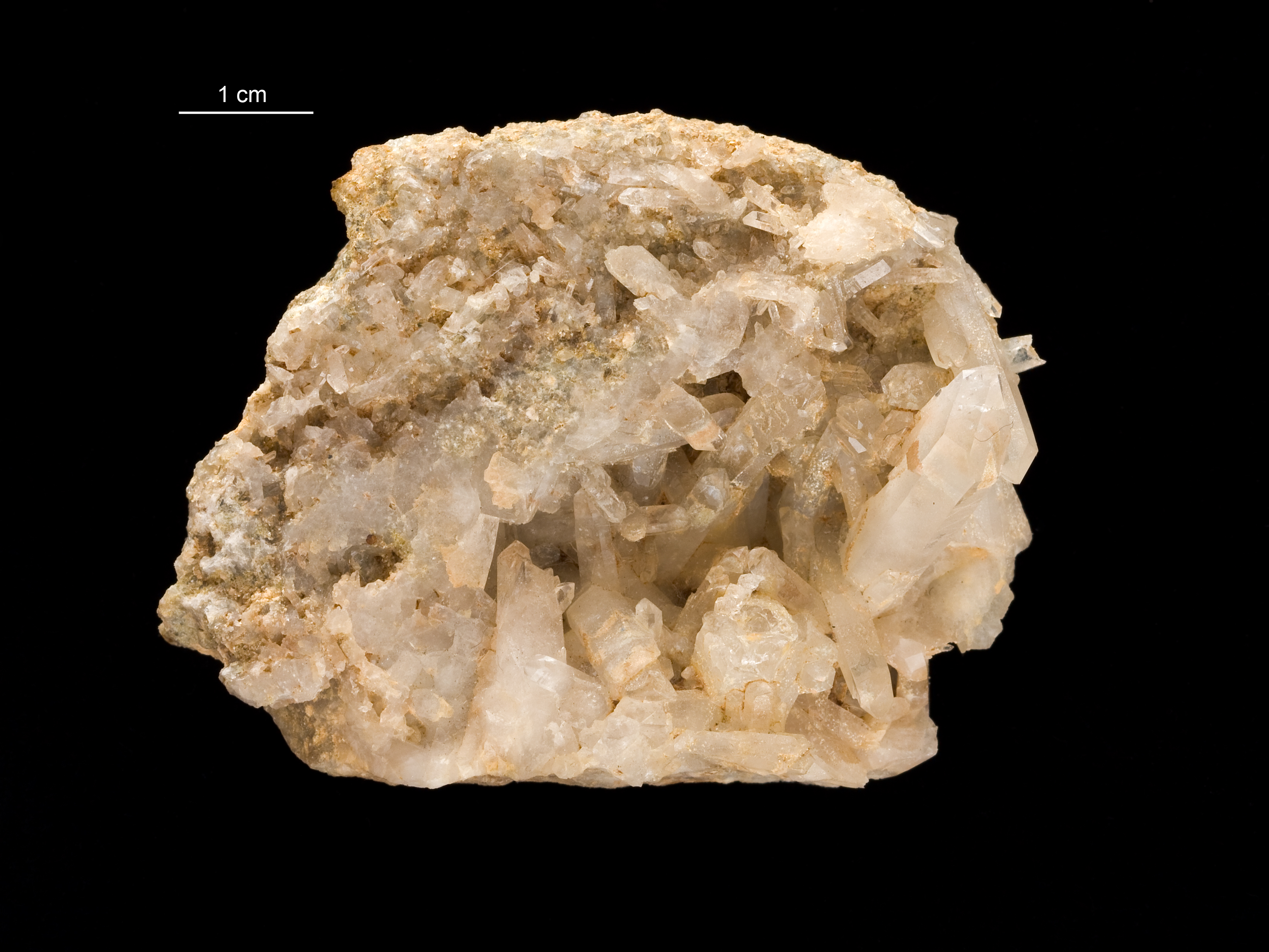 Cluster of rock crystals from Poland. More info about this file and about this specimen at